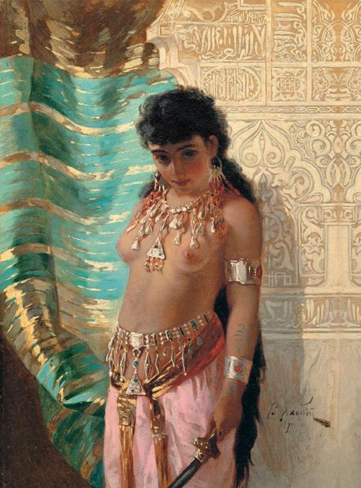 Valery Jacobi (1834-1902) An Oriental Beauty